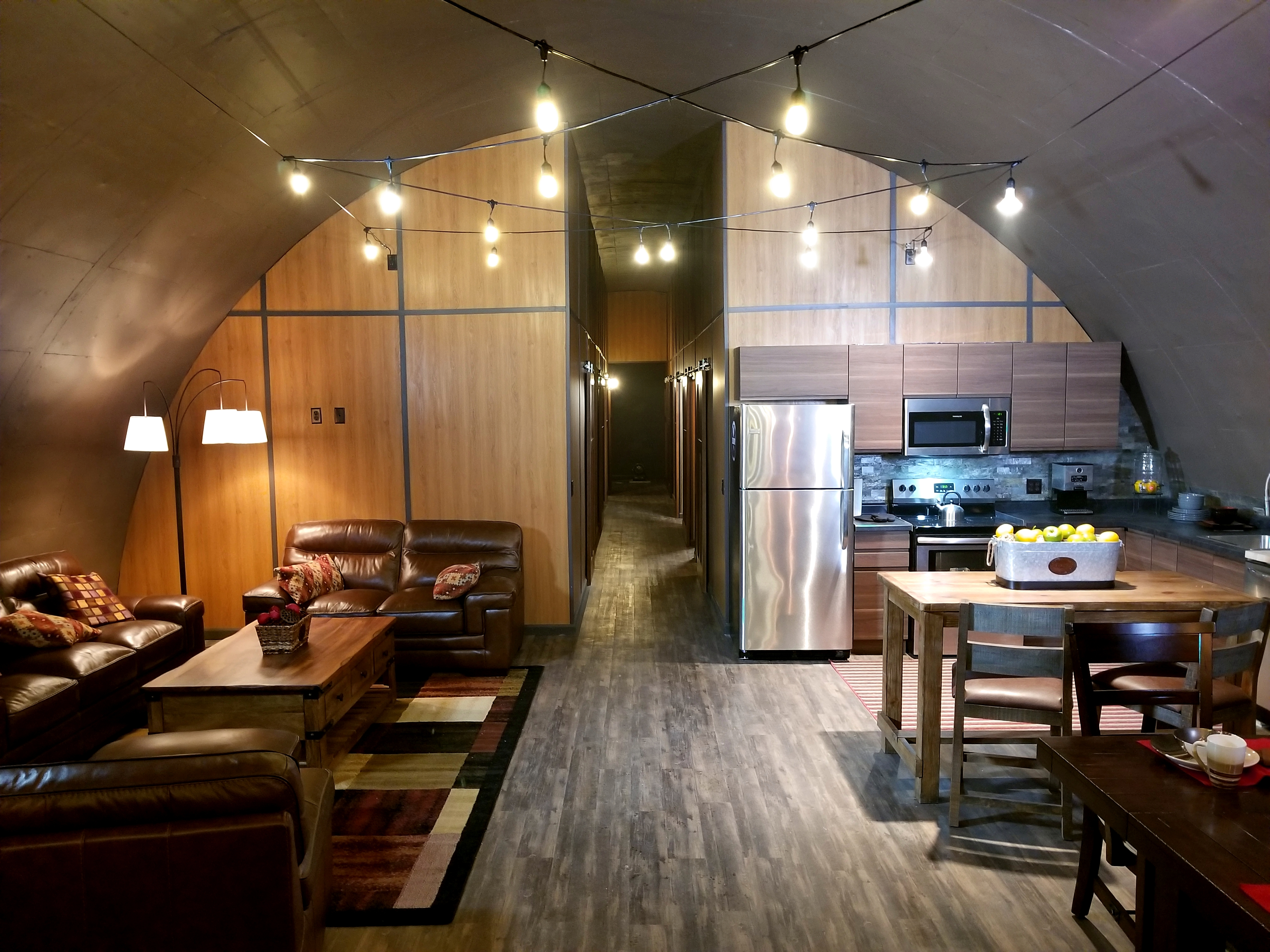 Interior photo of the Vivos xPoint showroom bunker.